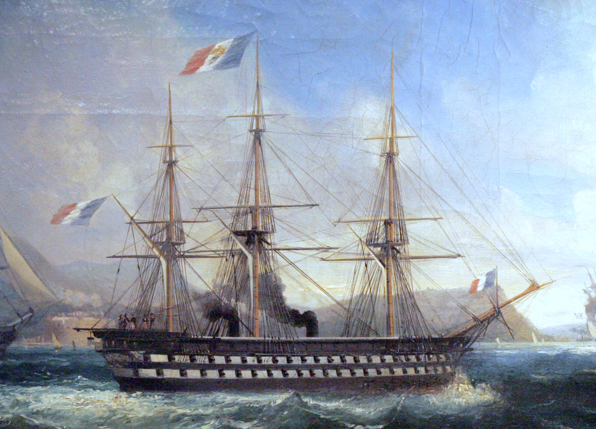 The Napoleon At Toulon In 1852